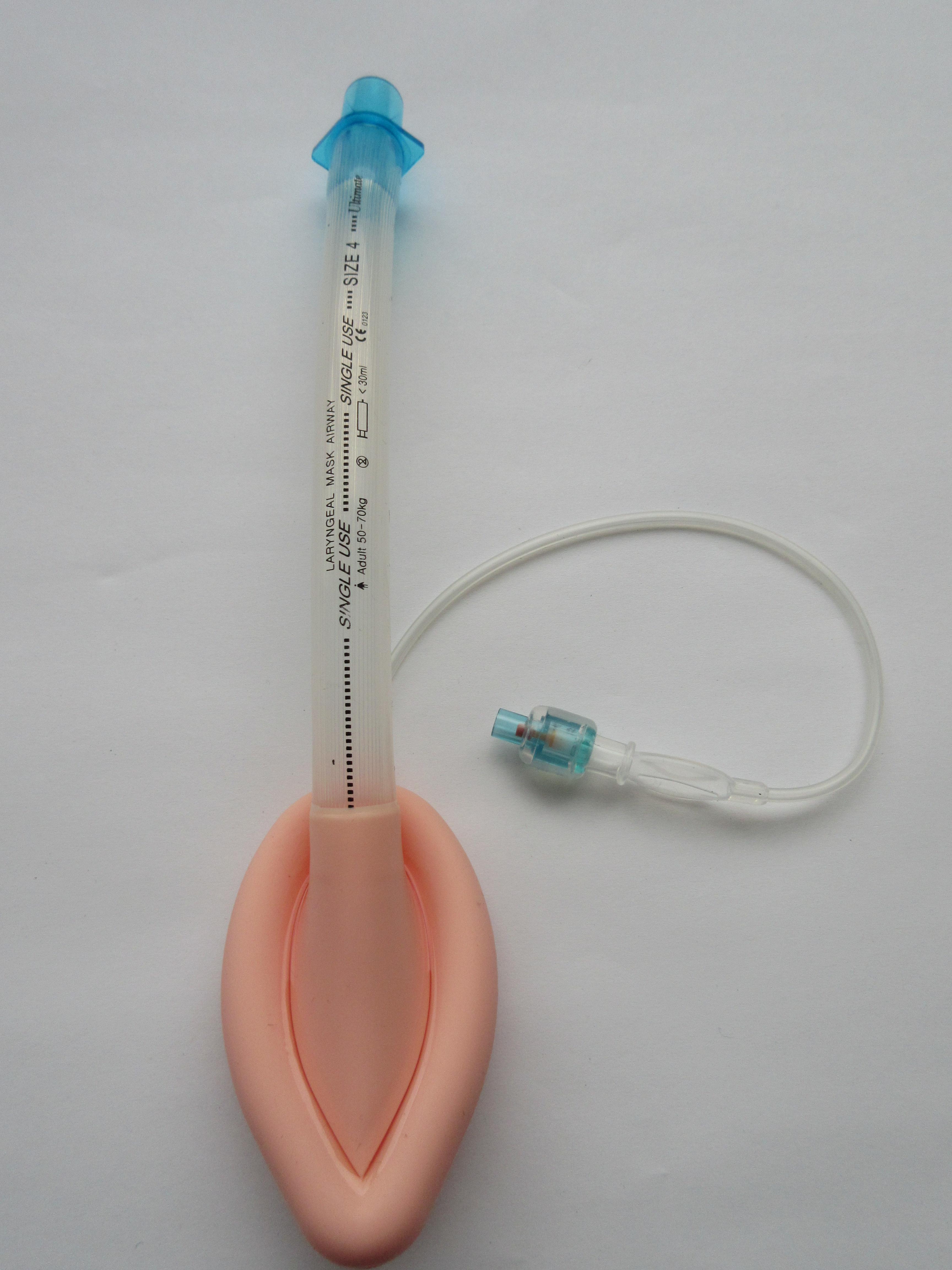 laryngeal mask airway